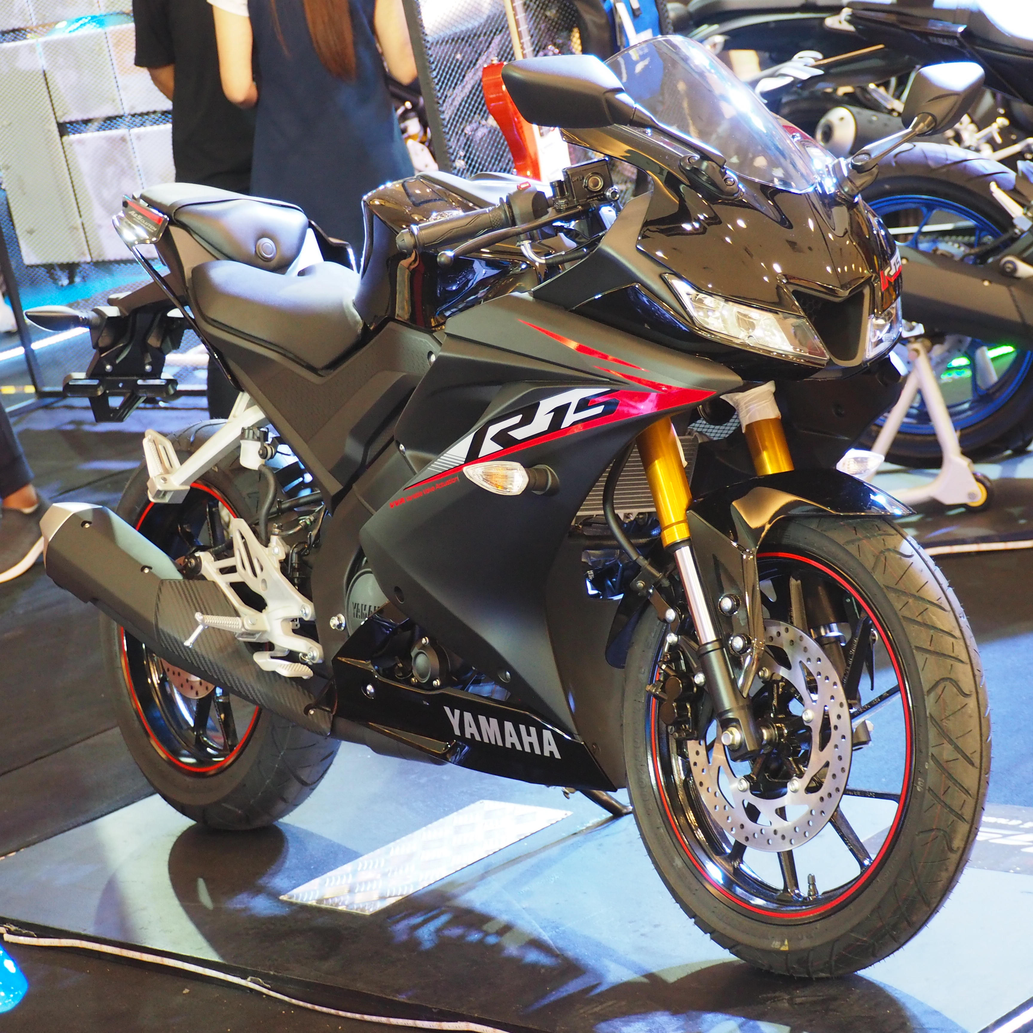 2019 Yamaha YZF-R15 in Central Plaza Khon Kaen, Khon Kaen, Thailand.